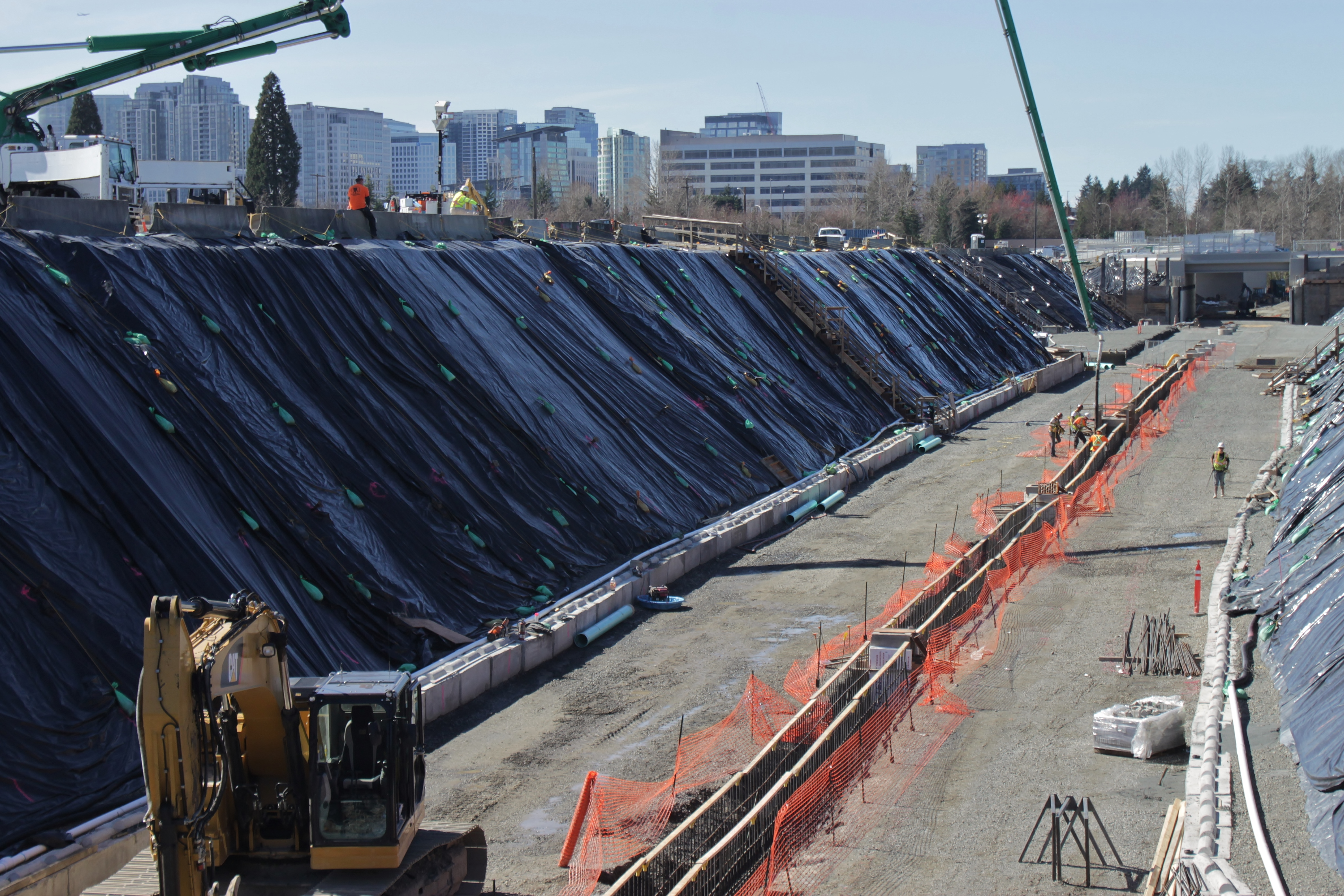 The excavated station box at the Spring District/120th light rail station in Spring District, Bellevue, Washington, looking west from 124th Avenue NE.